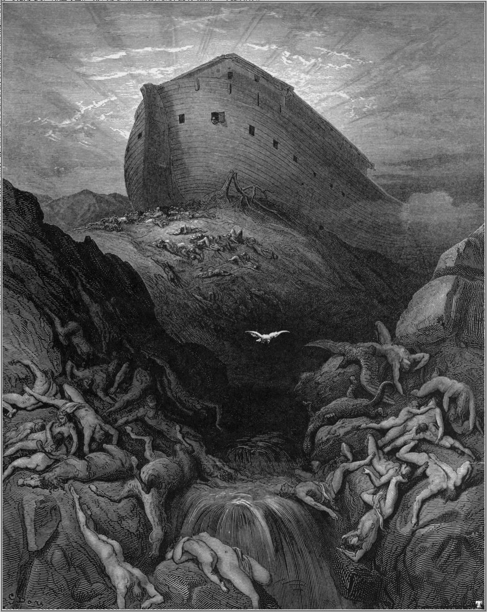 1866–1870 engraving by Gustave Doré (1832–1883), entitled "Le Lâcher de la colombe" ("The dove sent forth from the ark"). "Alors il lâcha d'auprès de lui la colombe pour voir si les eaux avaient diminué à la surface du sol." ("Then he sent forth a dove from him, to see if the waters had subsided from the face of the ground.", Genesis 8, 8).